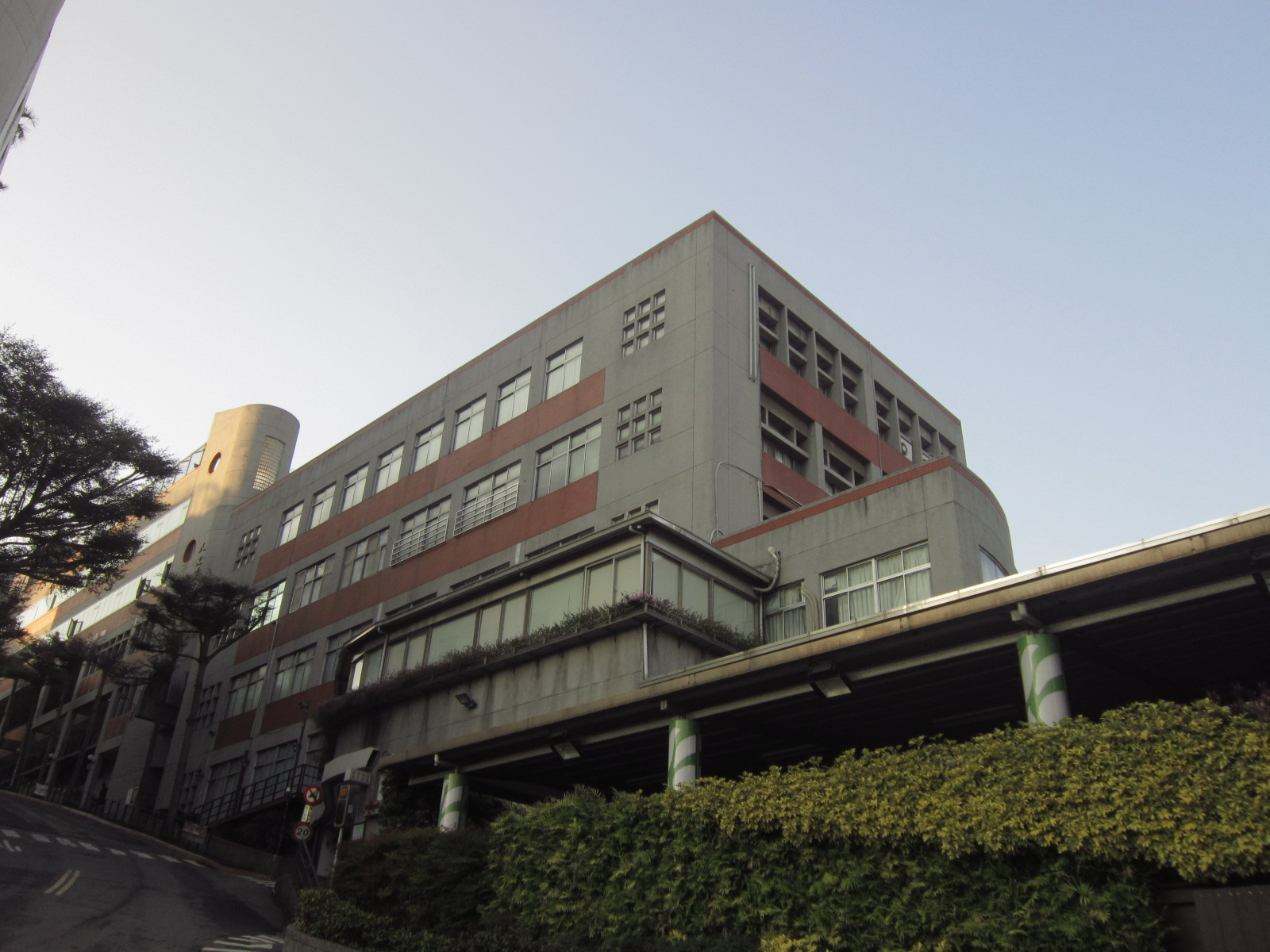 Humanities and Design College, Lunghwa University of Science and Technology